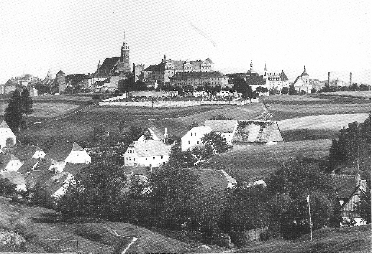 Bautzen; View over Seidau on Ortenburg castle before 1892